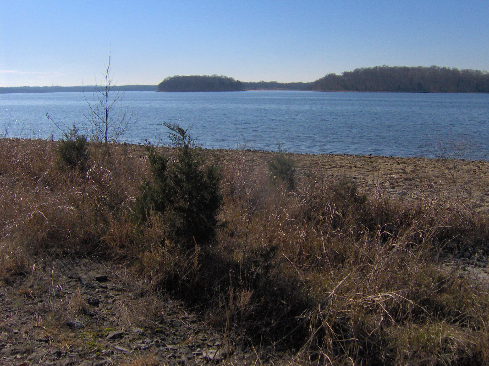 The J. Percy Priest Lake impoundment of Stones River at Long Hunter State Park near Nashville, Tennessee, in the southeastern United States. This point can be accessed from the Volunteer Trail in the park's Bakers Grove section. Stones River was named for long hunter Uriah Stone, whose hides were stolen from him by a French hunting companion somewhere along the river around 1767. The incident would also influence the naming of the park.